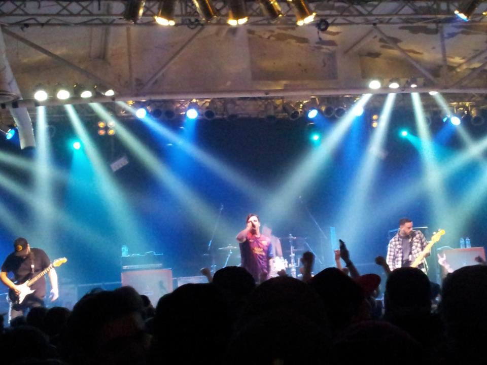 Stray from the Path live in Cologne (2013)